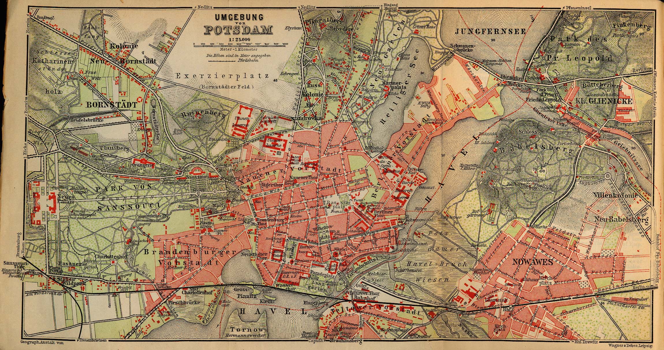 Map of Potsdam